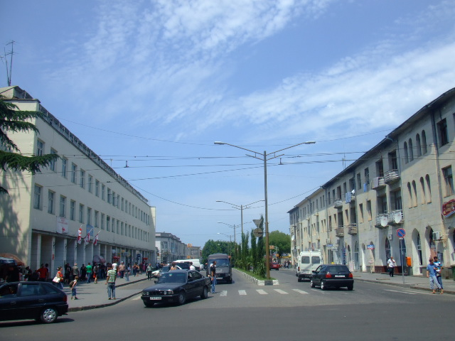 Zugdiidi